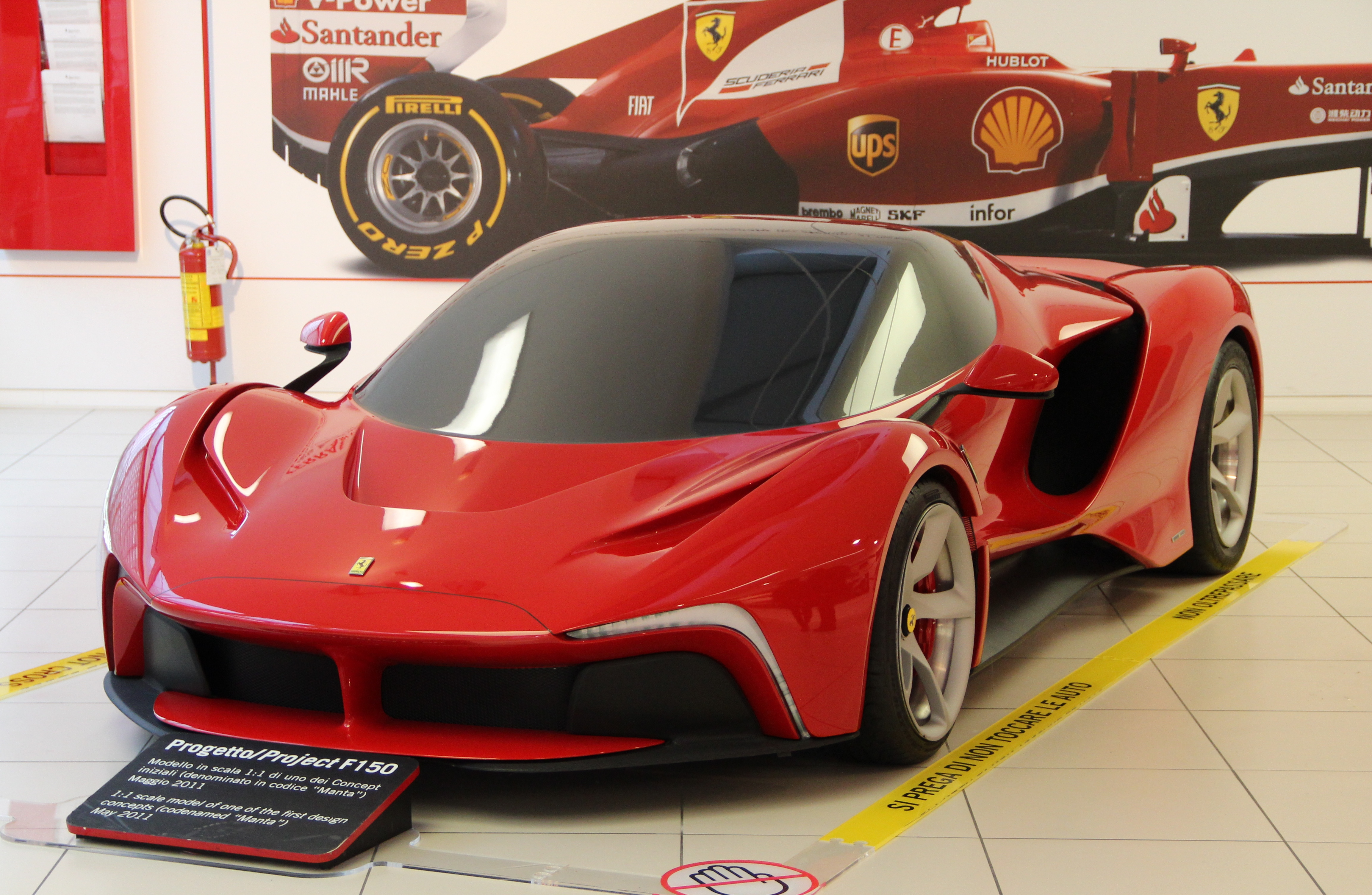 Ferrari F150 Concept 2 "Manta"